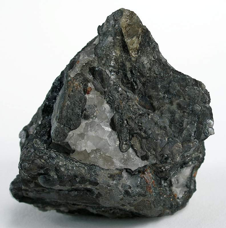 Stibarsen Locality: American Eagle; Luona Occurrence, Elk Mountain District, Gunnison County, Colorado, USA (Locality at ) Size: 4.7 x 3.2 x 3.2 cm. This is a rich specimen of stibarsen, with spheroidal nodules and massive seams in ore matrix. Even though the label has somehow been lost since then, we know that this is not a European specimen and so is either from Gunnison Co., Colorado or from Ophir Mine in the Comstock Lode, Nevada. However the Nevada locality has no associations of red minerals listed as occurring there, while several occur in the Colorado locale - and this piece has small red flecks of two different species present on it. So although the locality is given without a confirming label, we think it to be a correct one. Ex. Academy of Natural Sciences Philadelphia Collection.